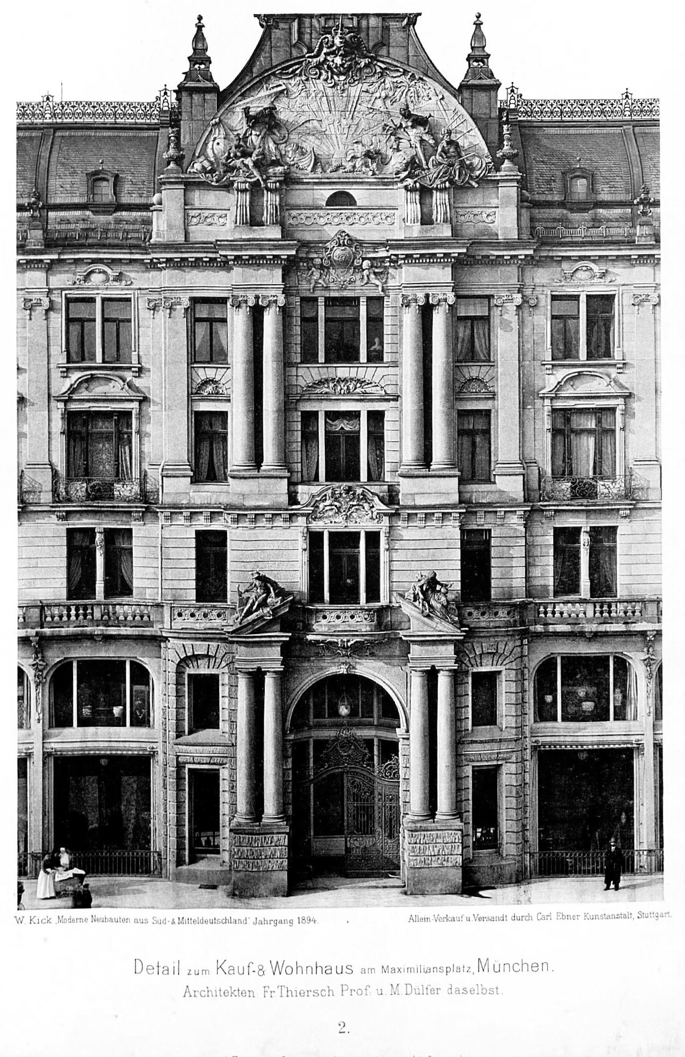 Kauf- & Wohnhaus am Maximiliansplatz, München, Architekten Fr. Thiersch Prof. u. M. Dülfer aus München, Tafel 11, Kick Jahrgang I